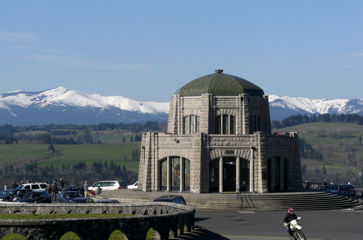 Looking north at Vista House in the Columbia River Gorge, on a beautiful spring day. Bikers were out en masse, enjoying the sunshine.